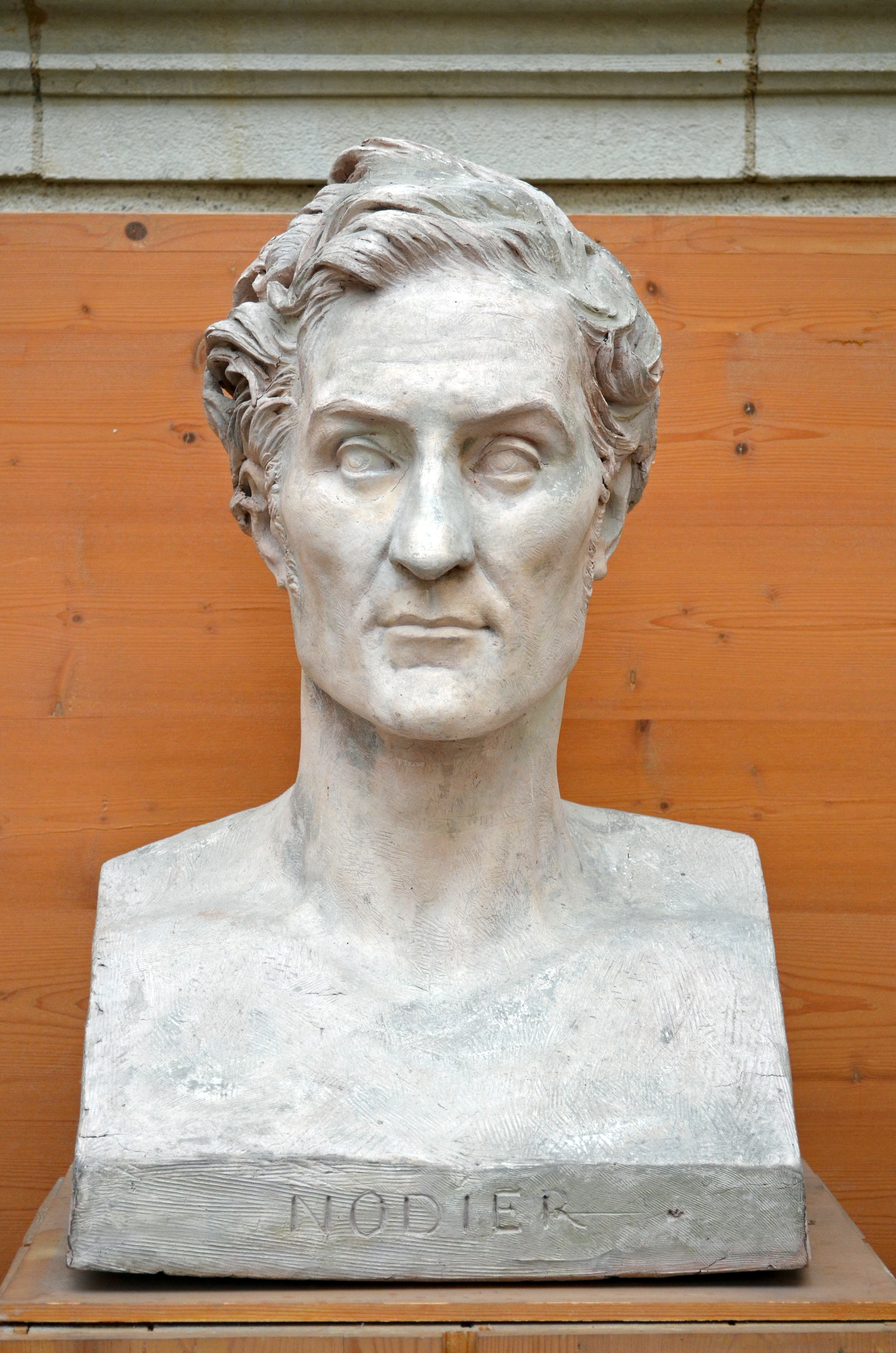 Charles Nodier's bust by french sculptor David d'Angers (1845). Exhibited in David d'Angers gallery, Angers, France.